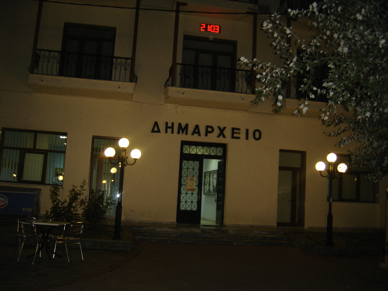 The city hall of Kolindros.